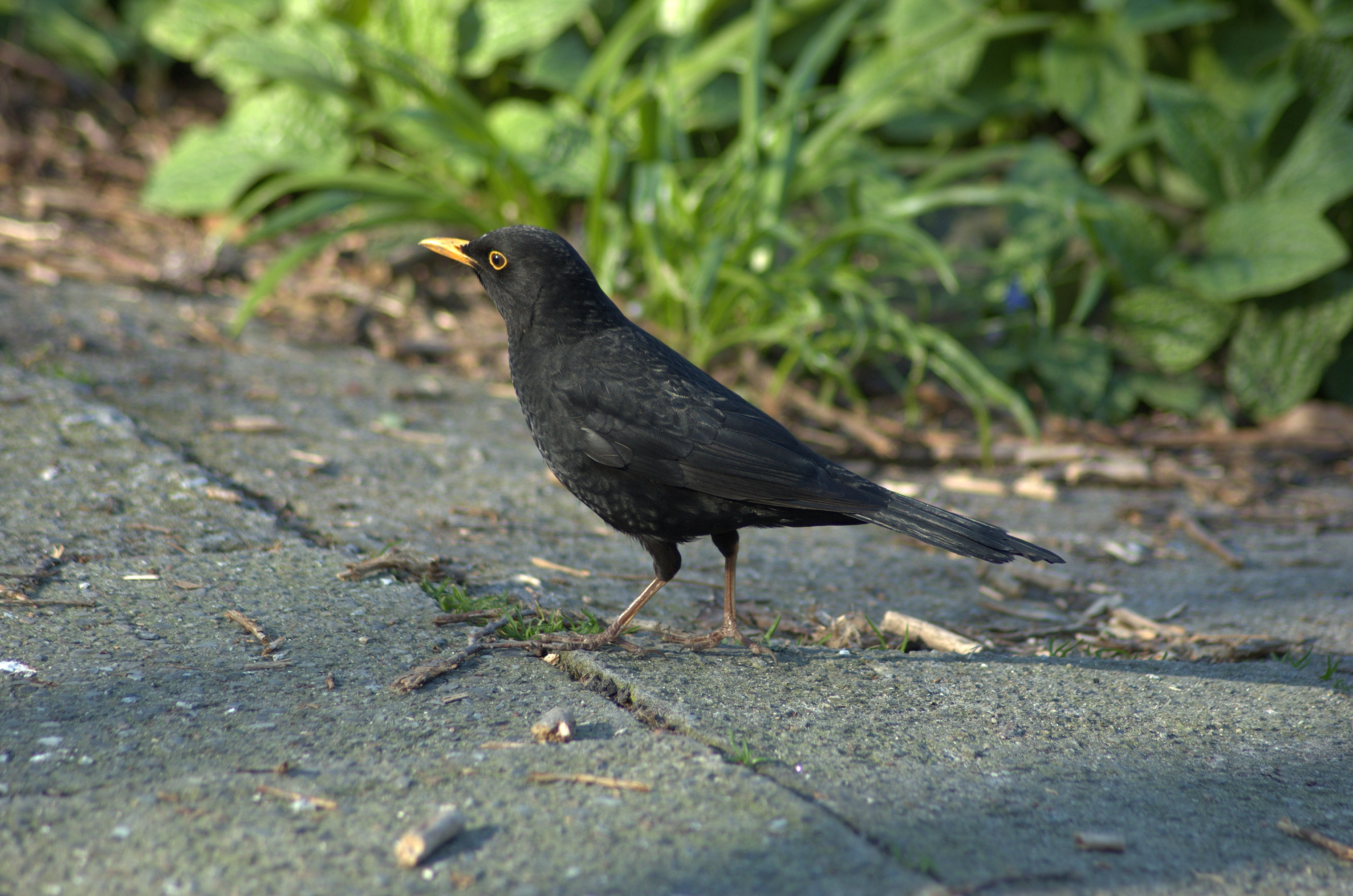 This is a male bird of the species Turdus merula. en: Male Blackbird. sv: Koltrast (hane). Camera: Nikon D50 Location: Copenhagen Botanical Garden in Copenhagen, Denmark.